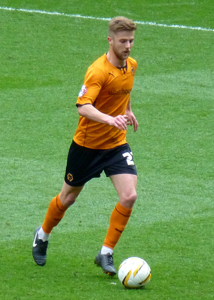 Michael Jacobs - Wolverhampton Wanderers vs Peterborough United (05/04/2014)